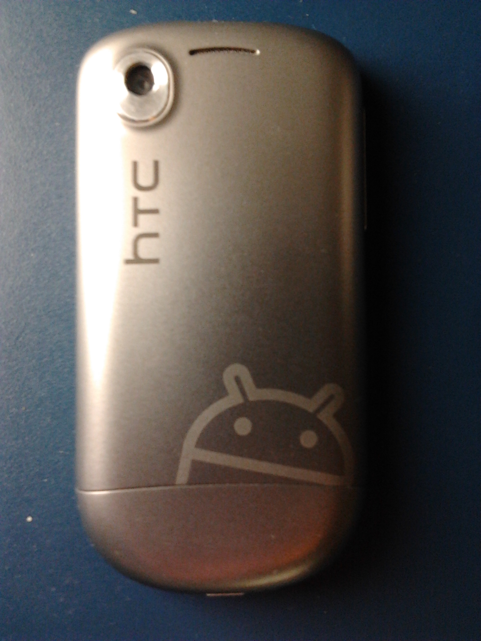 Original design of HTC Tattoo